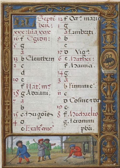 Calendar page for September: Below: four men playing a game that resembles golf.